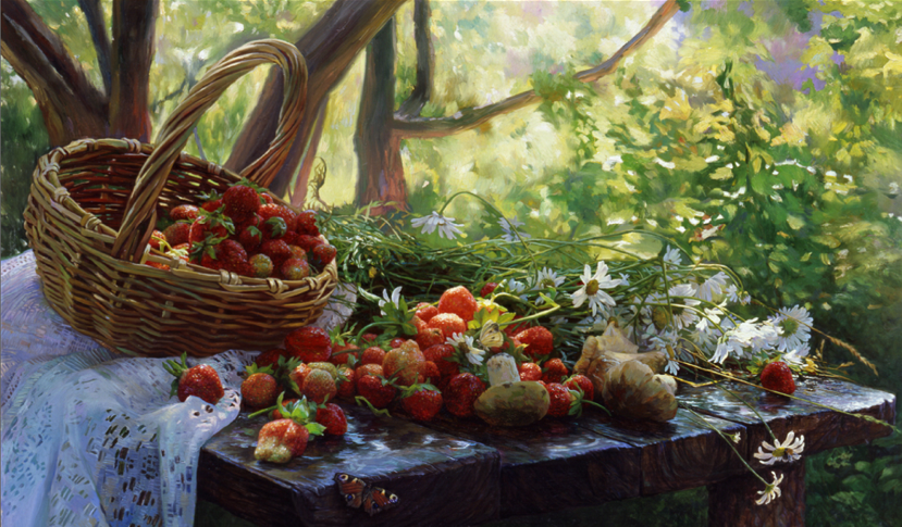 After a rain. Artists Konstantin Miroshnik, Natalia Kurguzov-Miroshnik